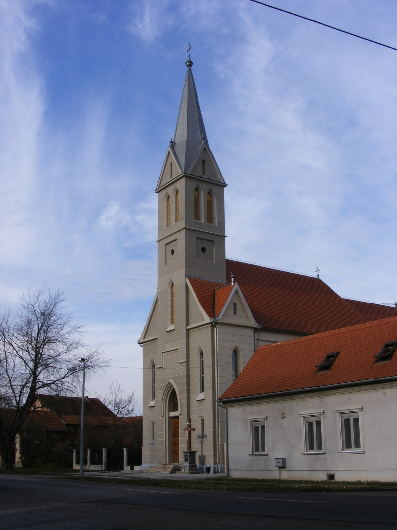 Katolička crkva u Dalju